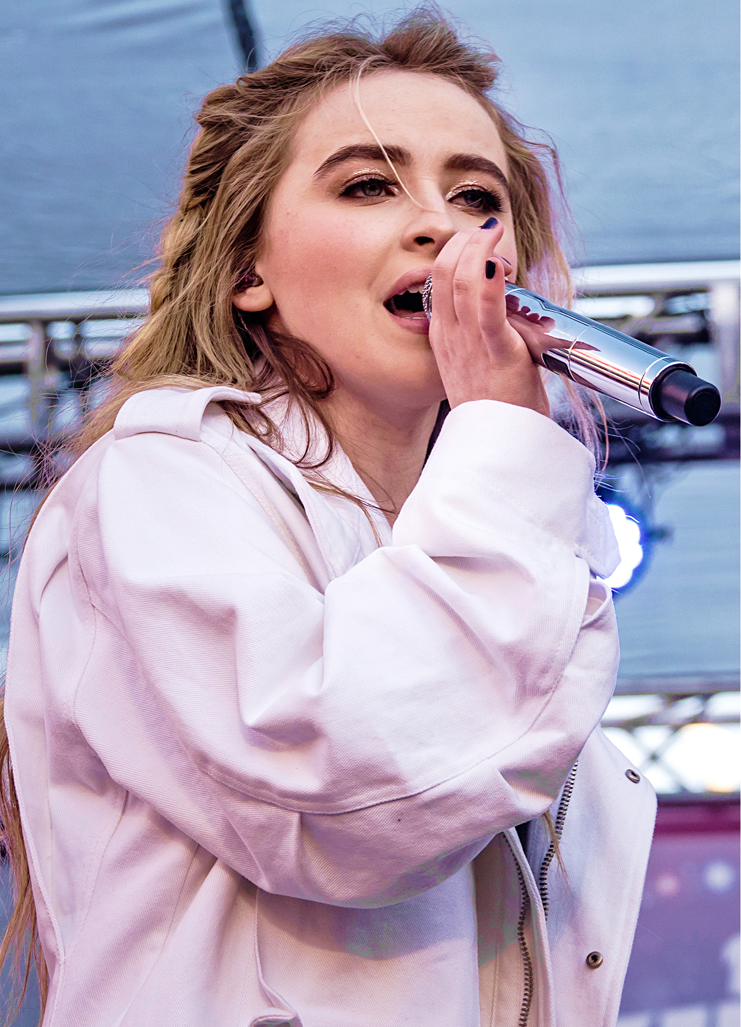 Sabrina Carpenter performing live at the 102.7 KIIS FM Jingle Ball Village, outside Staples Center in downtown Los Angeles, California, on Friday, December 2, 2016.